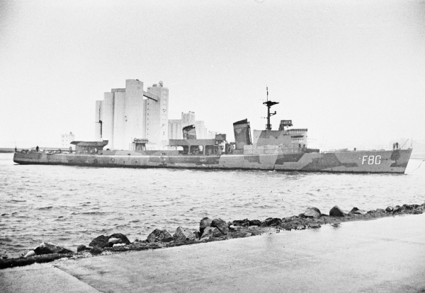 The Swedish frigate HMS Gävle, formerly a destroyer.